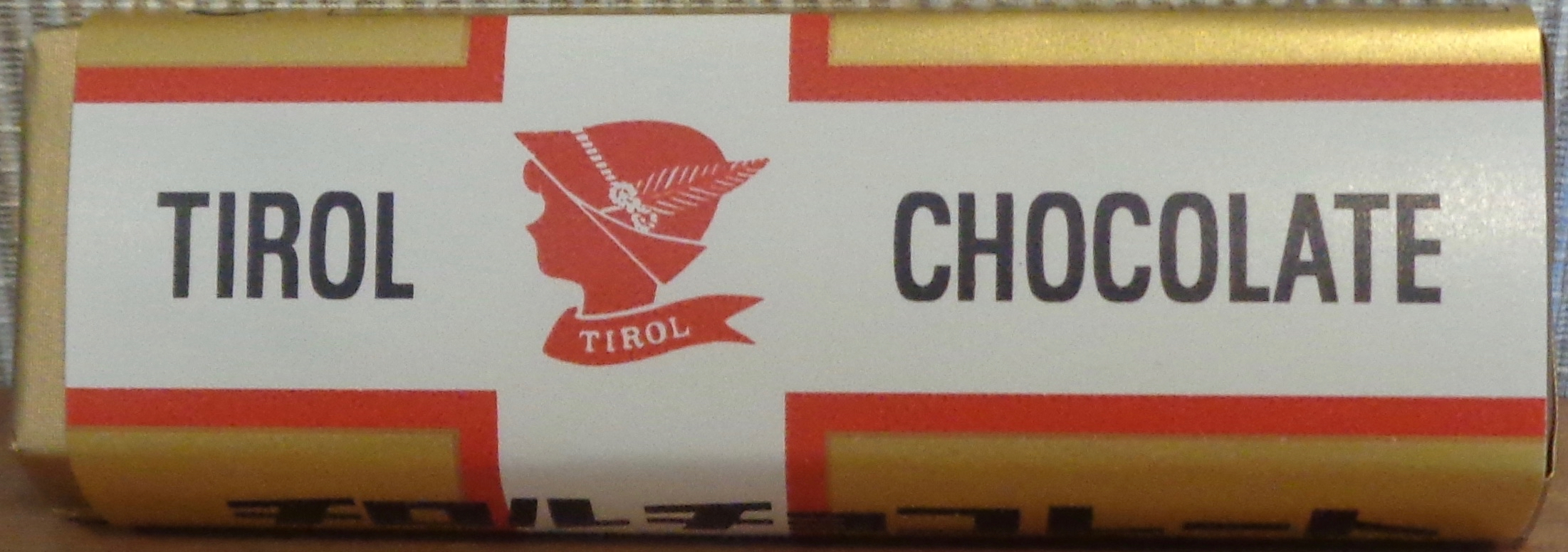 Japanese Chocolate Tirol